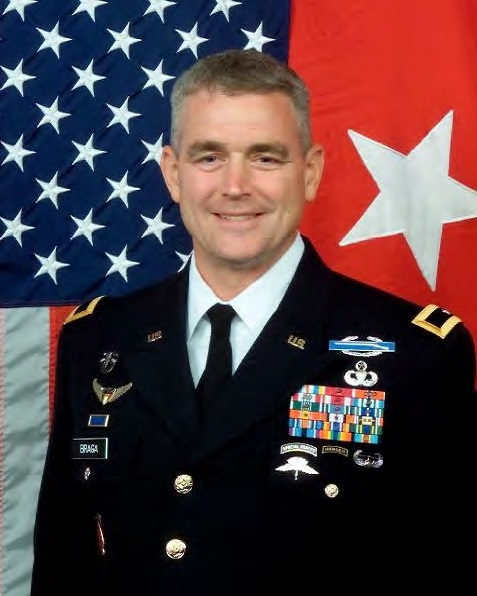 Maj. Gen. Jonathan P. Braga